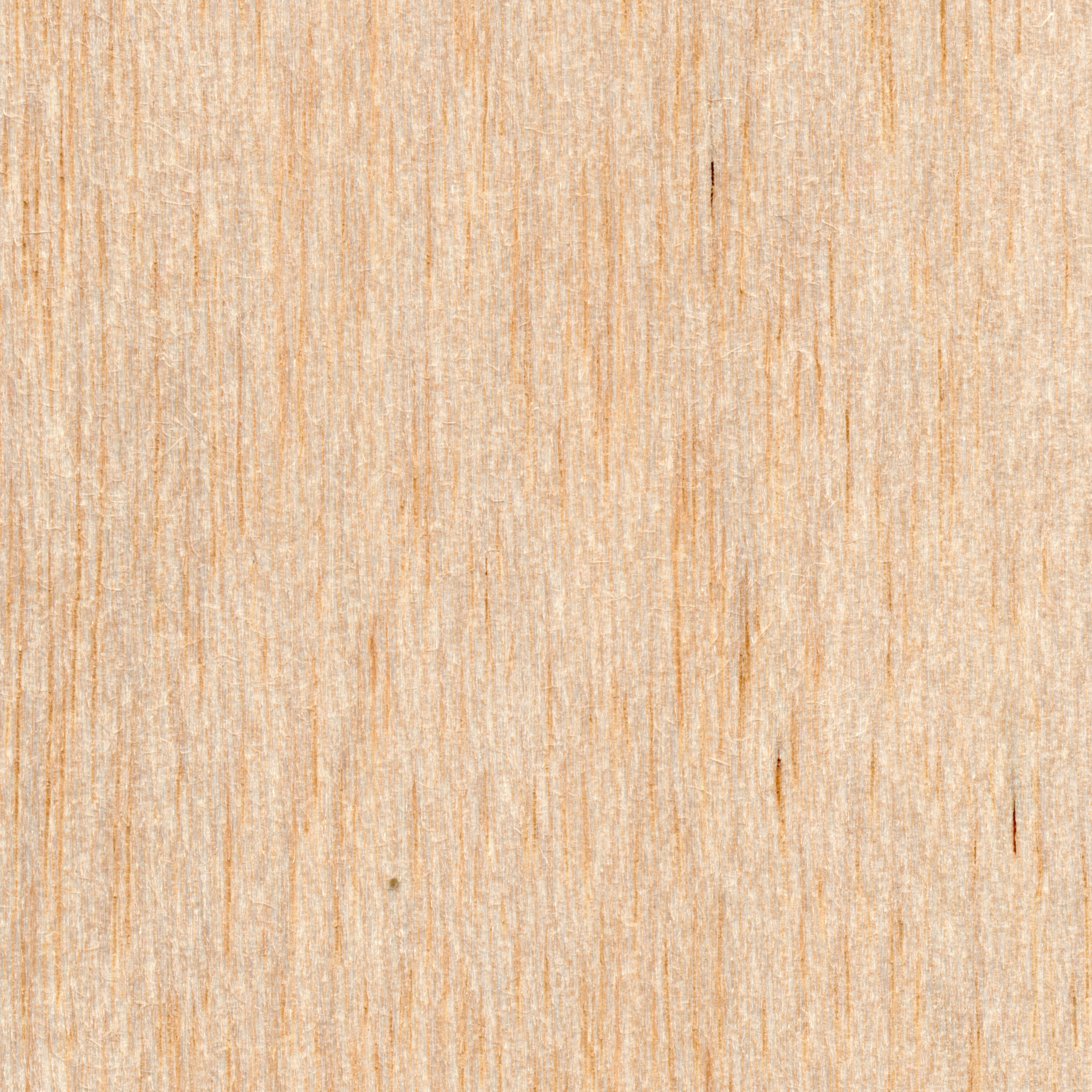 Close-up of balsa wood showing its grain.